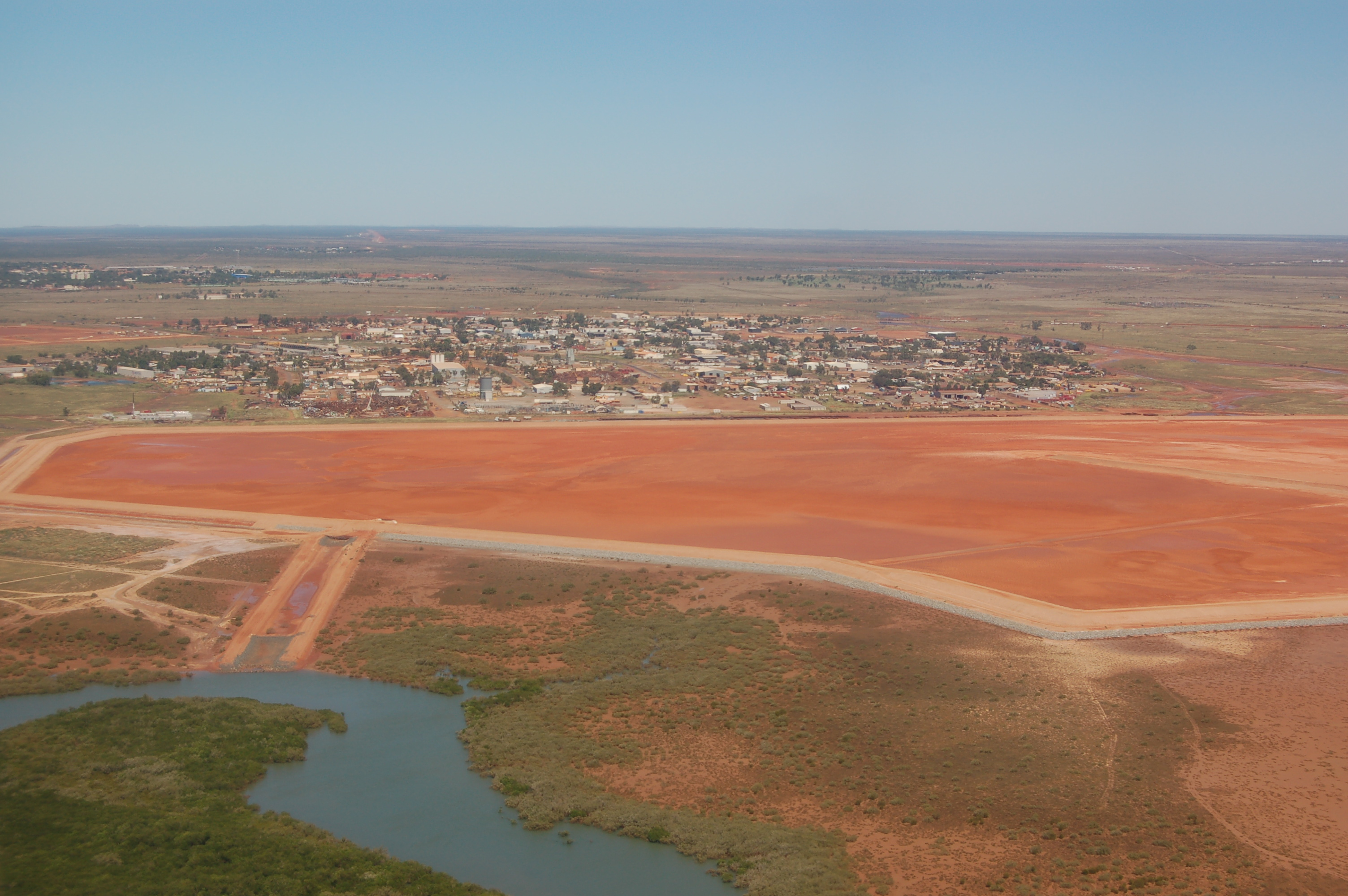 An aerial view of Wedgefield, Western Australia, from the north, taken from an aircraft about to land at Port Hedland International Airport.